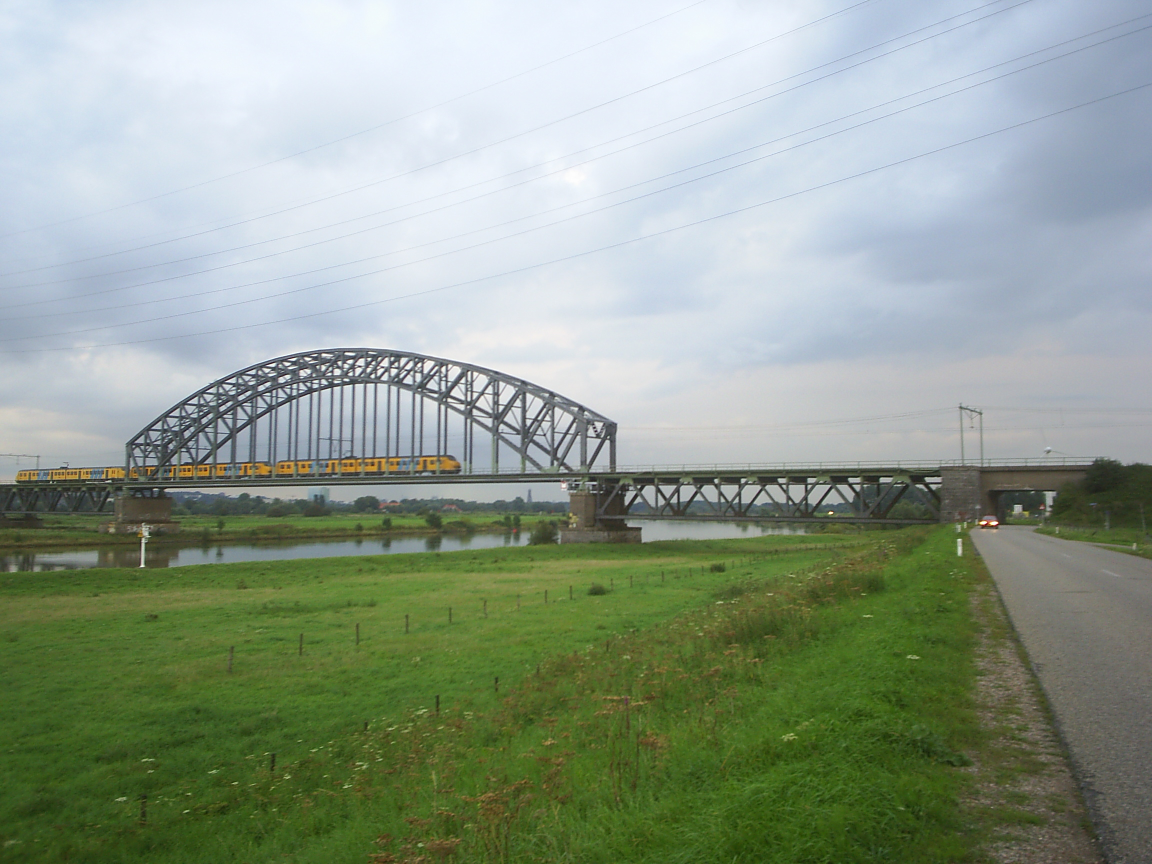 Railway bridge Arnhem (Netherlands)